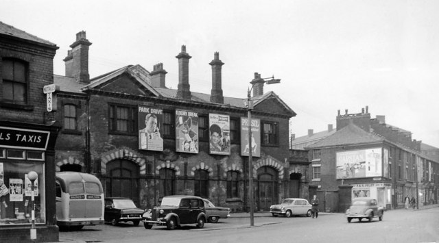 Bolton (Great Moor St.) Station, entrance remains, near to Bolton, Greater Manchester, England. View SW, to front of station; ex-LNW terminus of lines from Manchester Exchange and from Kenyon Junction. These lines and the station were closed to regular passengers on 28/3/54 but remained for excursion traffic until 1958 and goods until 1960.